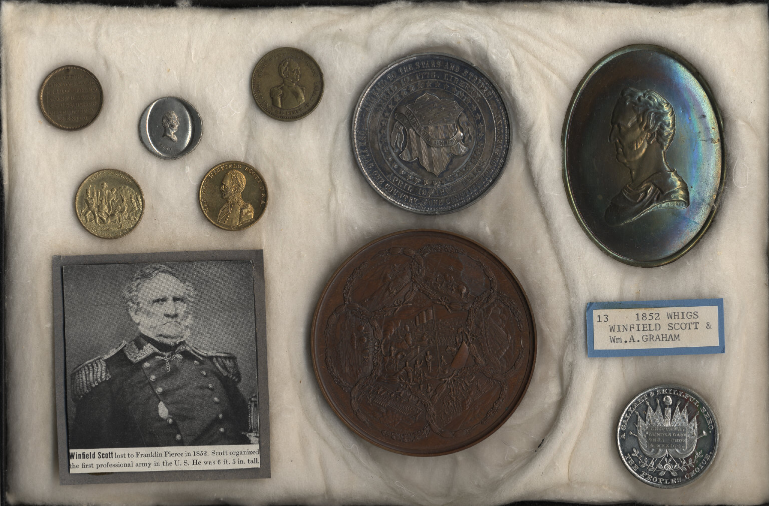 Collection: Cornell University Collection of Political Americana, Cornell University Library Repository: Susan H. Douglas Political Americana Collection, #2214 Rare & Manuscript Collections, Cornell University Library, Cornell University Title: Winfield Scott Campaign and Commemorative Items Political Party: Whig Election Year: 1852 Date Made: ca. 1852-1861 Measurement: Mount: 8 x 12 in.; 20.32 x 30.48 cm Classification: Ephemera Persistent URI: There are no known U.S. copyright restrictions on this image. The digital file is owned by the Cornell University Library which is making it freely available with the request that, when possible, the Library be credited as its source.